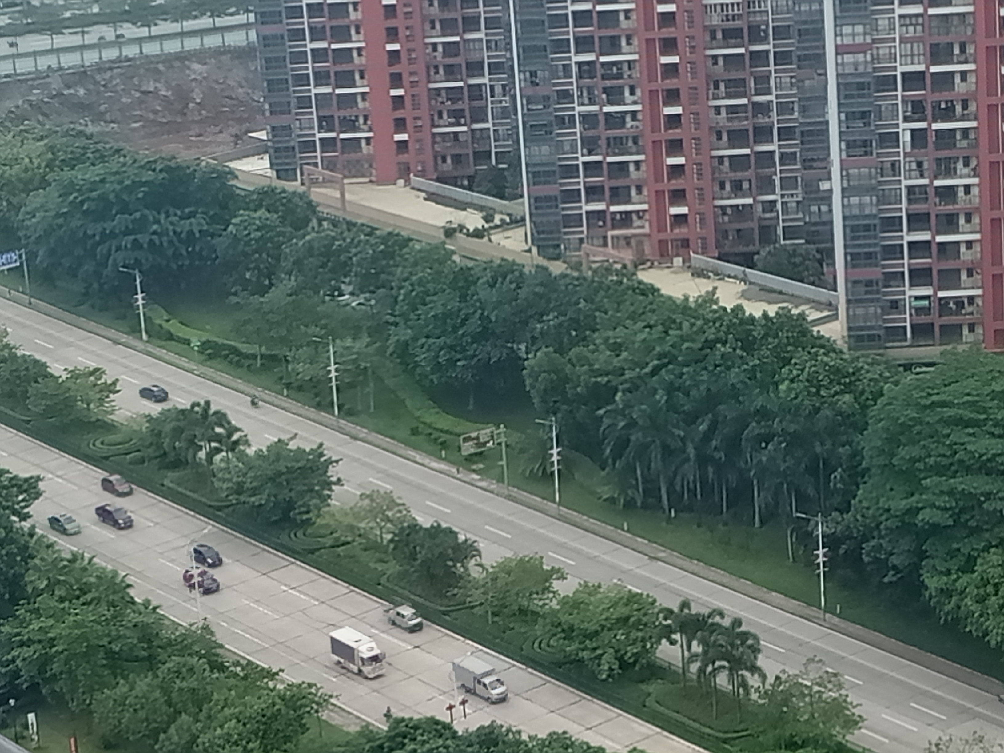 Picture taken from a drone in Huizhou